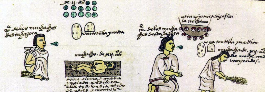 Codex Mendoza — a father teaches his twelve-years-old son the art of war, and a mother teaches her daughter house duties.